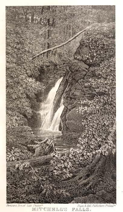 Image from :Henry E. Colton Mountain Scenery. The Scenery of the Mountains of Western North Carolina and Northwestern South Carolina. Raleigh, N.C.:: W.L. Pomeroy. Philadelphia: Hayes & Zell, 1859. Herline & Hensel Lith. Philad. Hayes & Zell Publishers Philad. MITCHELL'S FALLS. (Page 32)